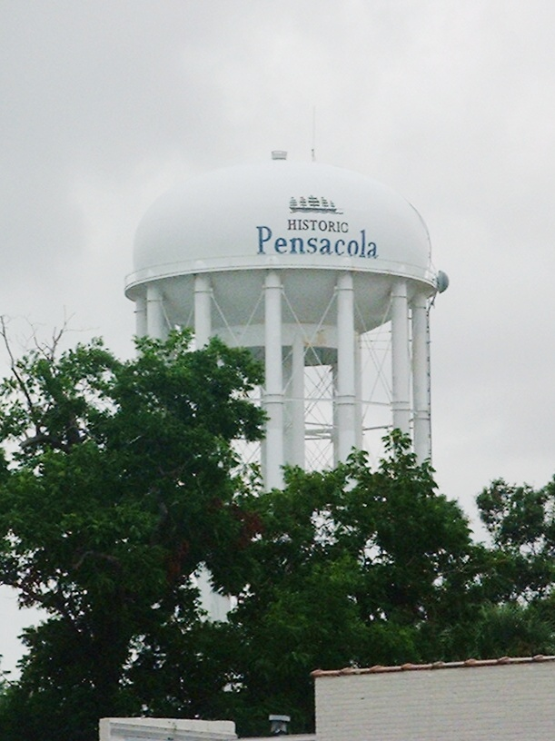 The "Historic Pensacola" water tower, Pensacola, Florida.